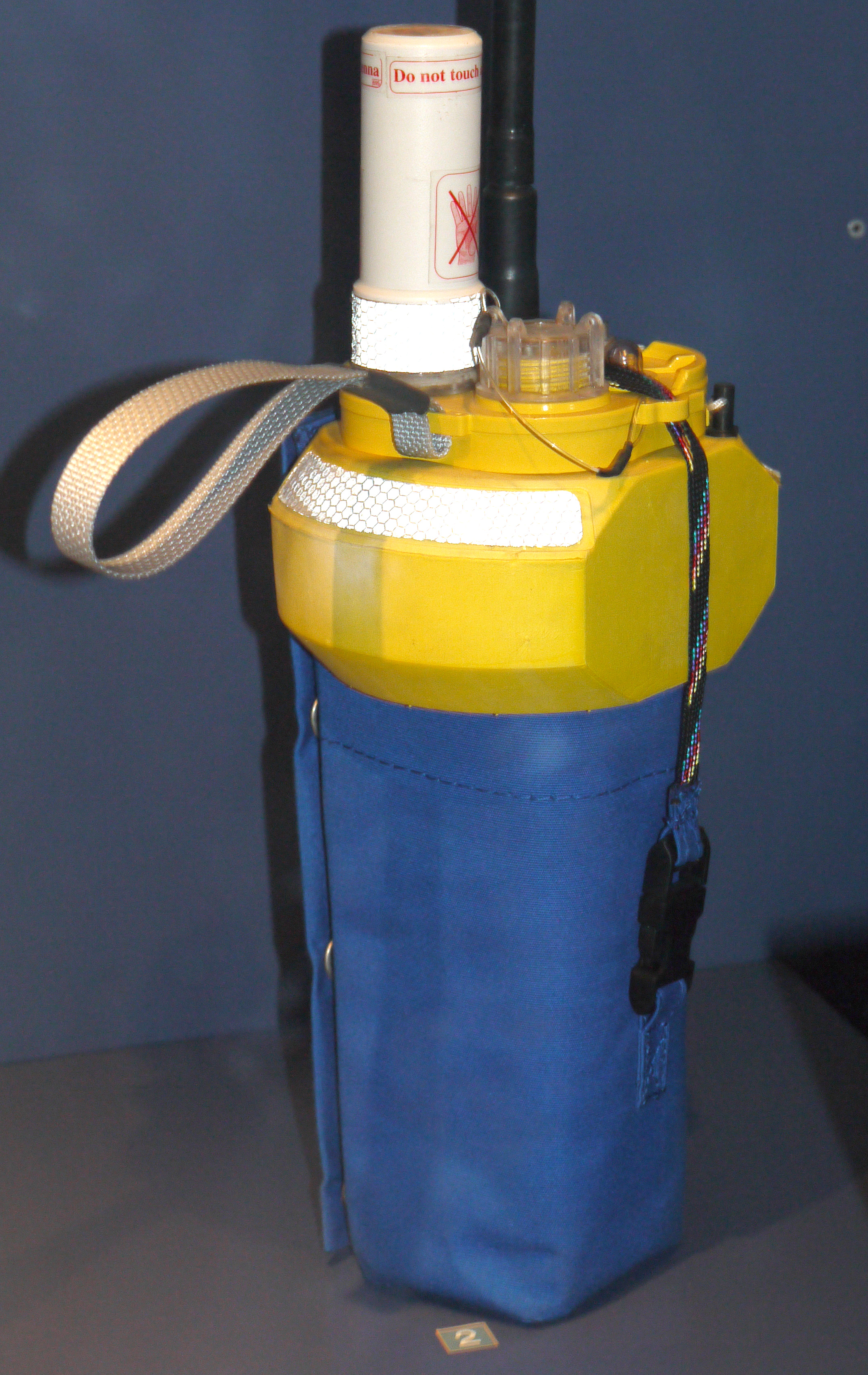 Seabeacon systeme Argos, Museum of Air and Space Paris, Le Bourget (France)